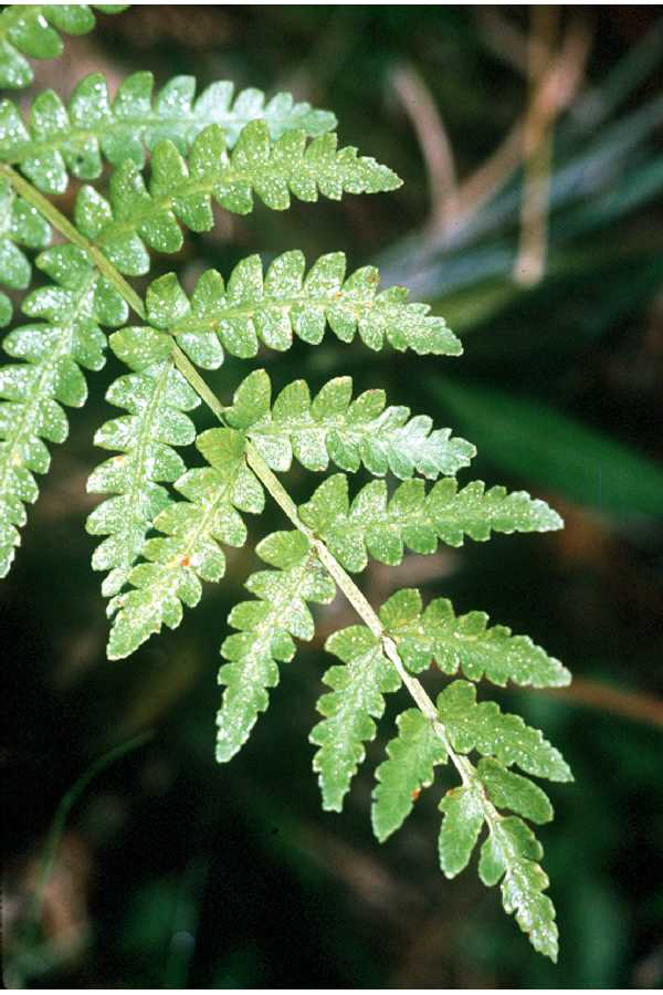 Woodwardia virginica by Robert H. Mohlenbrock. USDA SCS. 1991. Southern wetland flora: Field office guide to plant species. South National Technical Center, Fort Worth. Courtesy of USDA NRCS Wetland Science Institute.